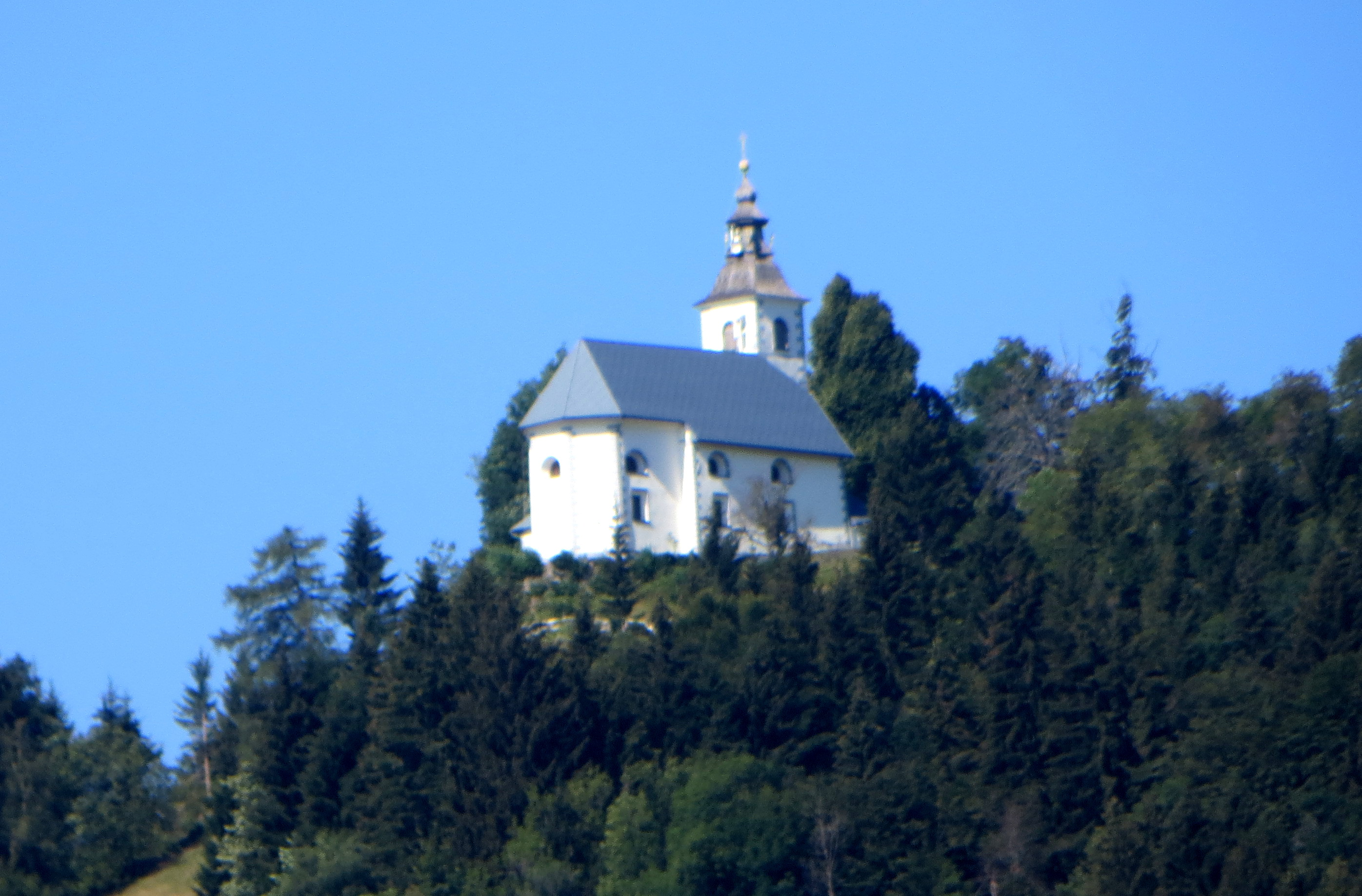 Assumption Church in Jazbine, Municipality of Gorenja Vas–Poljane, Slovenia